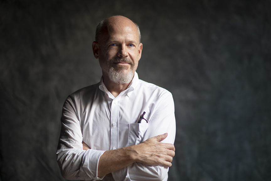 Randy West, artist, photographer, School of Visual Arts, New York City